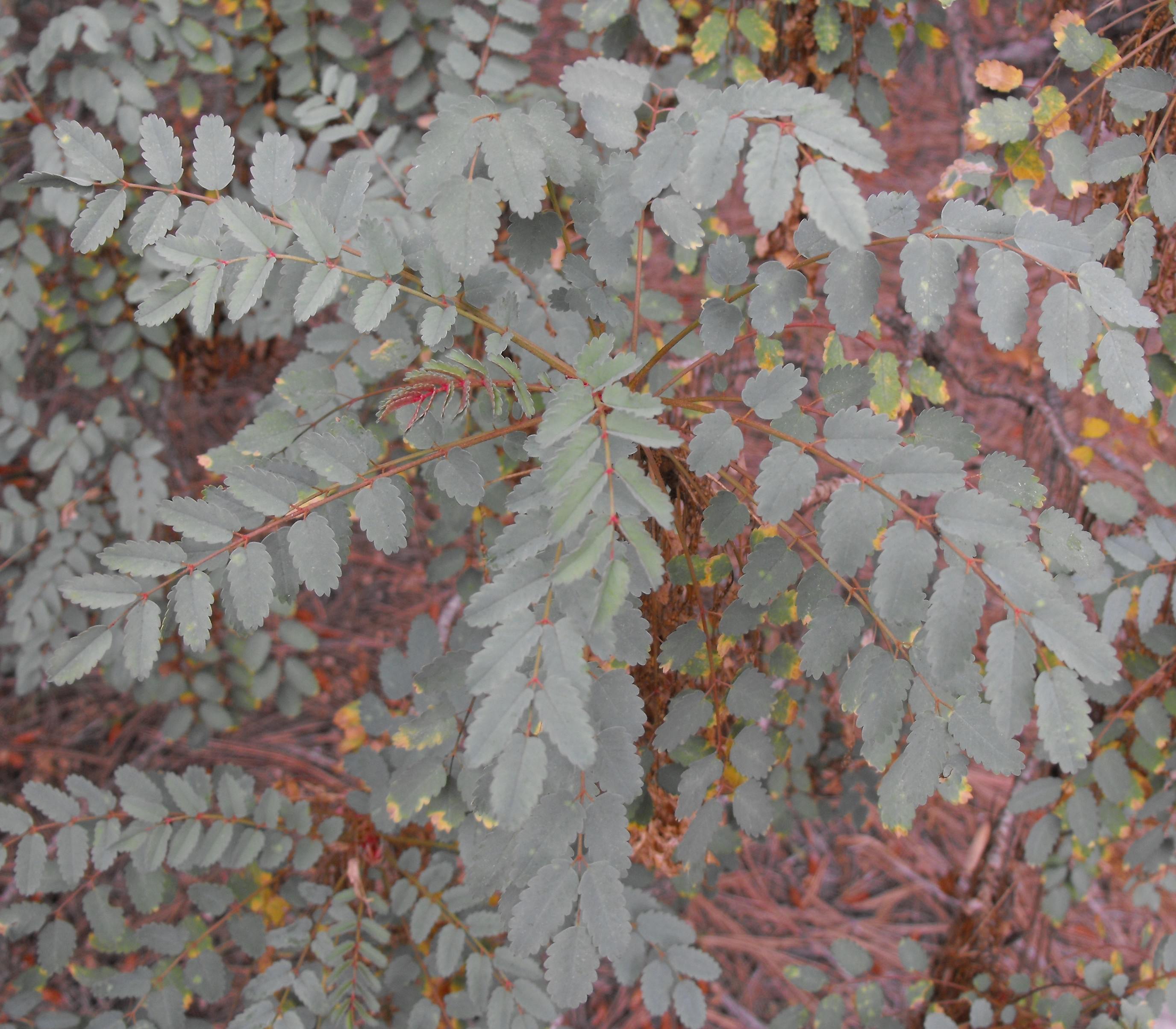 Marcetella moquiniana. At the San Diego Botanic Garden (formerly Quail Botanical Gardens) in Encinitas, California. Identified by sign.